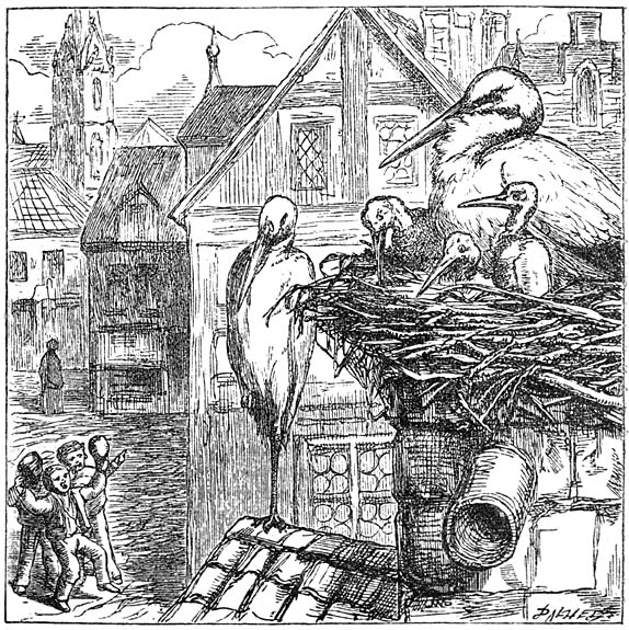 From 'Andersens Sproken en vertellingen' by Hans Christian Andersen, Titia van der Tuuk (ed.) and Simon Jacob Andriessen (trans.). Gebroeders E. & M. Cohen, Nijmegen - Arnhem. Illustrated by Alfred Walter Bayes (1832-1909) and engraved by the Dalziel Brothers (Edward Daziel, 1817-1905; George Daziel, 1815-1902).